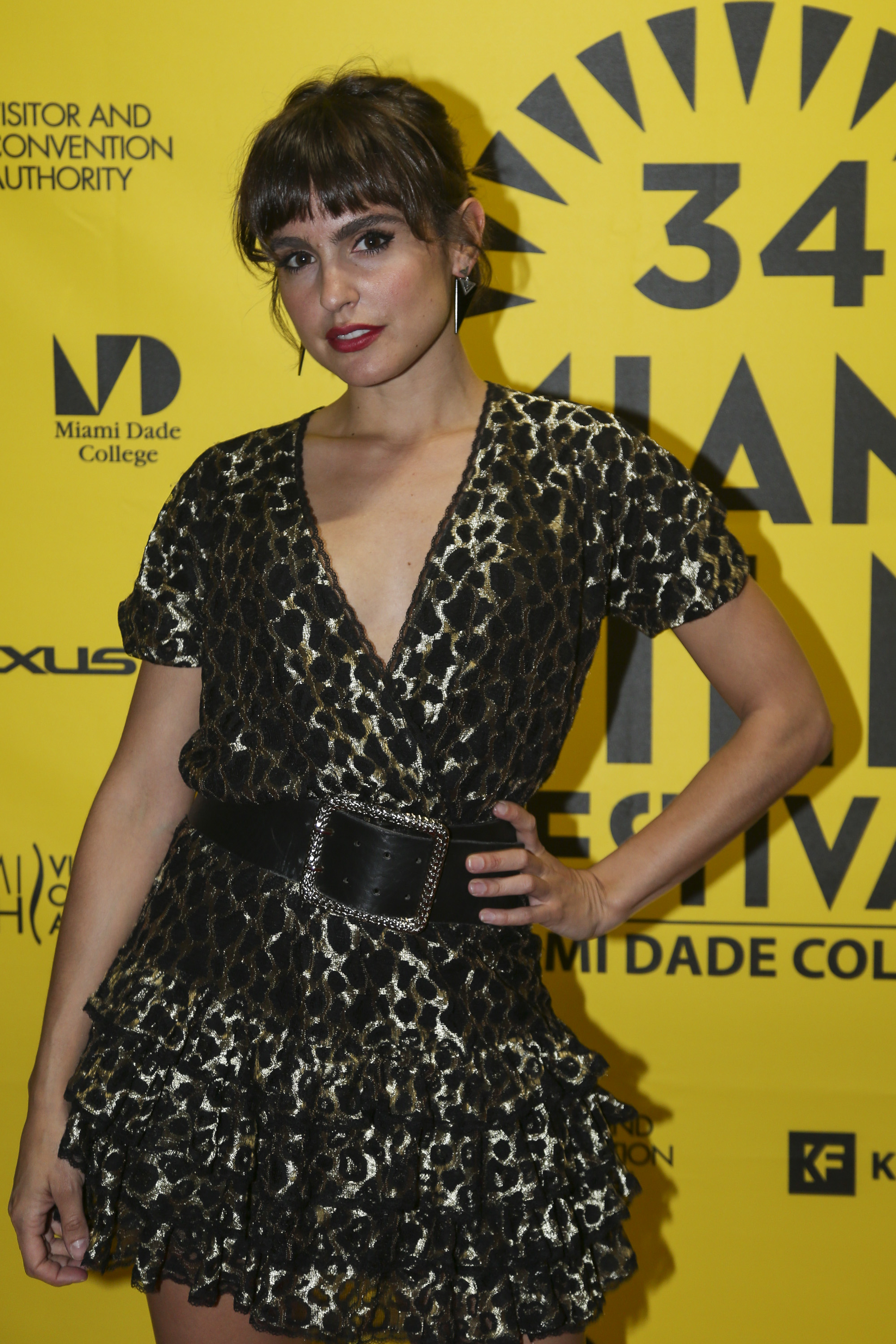 Veronica Echegui at the 2017 Miami International Film Festival presentation of Don't Blame it On Your Karma! at Regal Theater during Miami Film Festival on March 10, 2017